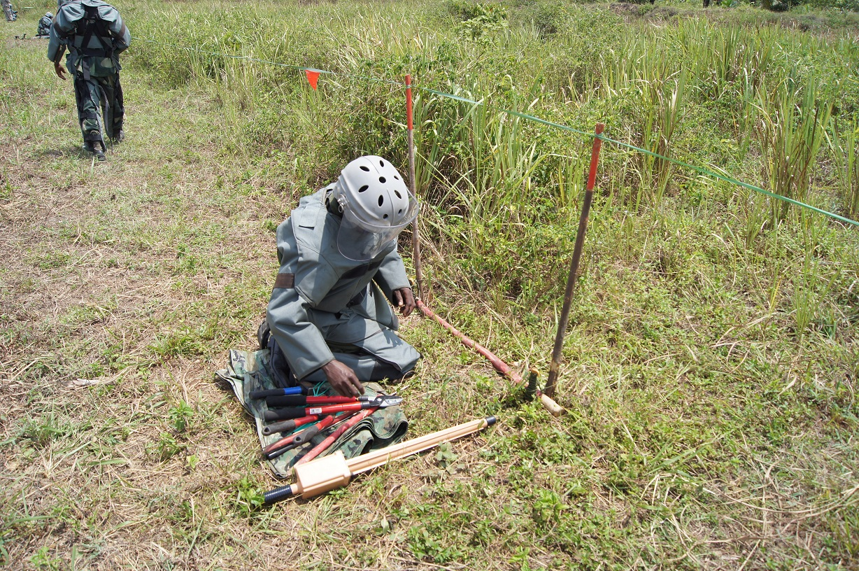 A Congolese soldier with the Forces Armées de la République Démocratique du Congo (FARDC) starts a one-man drill, a methodical and deliberate procedure to conduct minefield clearance . The stick that is in front of him is a one-meter stick that is slowly inched forward as his lane is cleared. This engagement, which is part of the Humanitarian Mine Action program, took place April 6- 27 at Camp Base in Kisangani, the capital of the Orientale Province in the Democratic Republic of the Congo. (U.S. Army photo by Capt. Charles A. Schnake) To learn more about U.S. Army Africa visit our official website at Official Twitter Feed: Official Vimeo video channel: Join the U.S. Army Africa conversation on Facebook